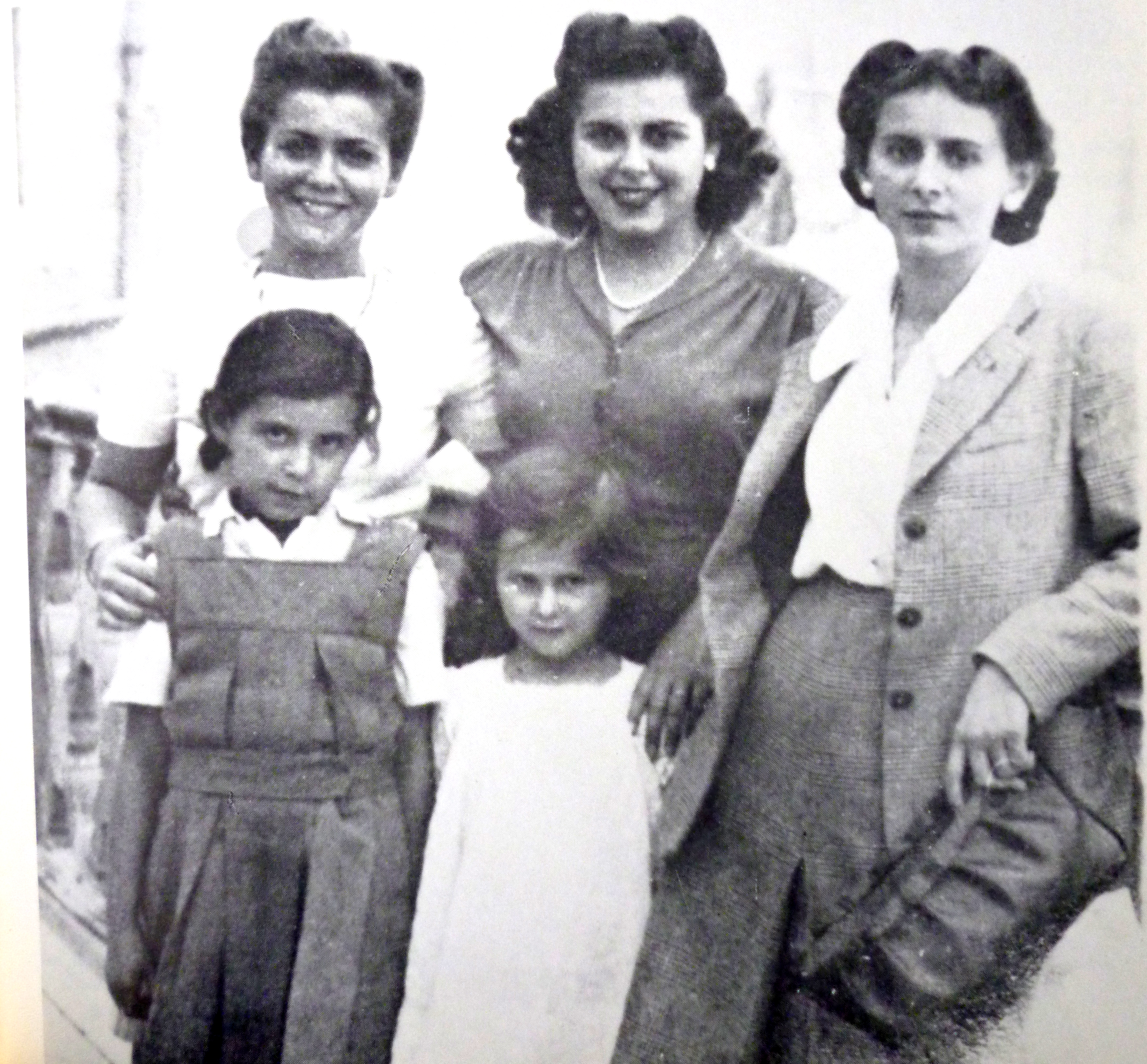 Mordechai Weingartens daughters: rear: Masha, Rivca, Yehudit. front: Rachel, Ceremia.